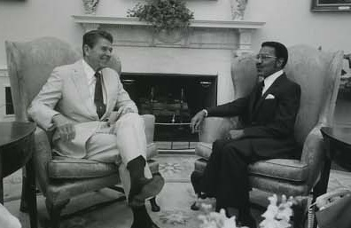 Ronald Reagan visits with Howard U President James E. Cheek in Oval Office